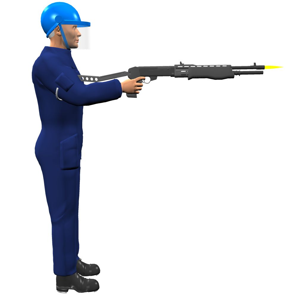 Franchi SPAS-12 shotgun showing use of its stock-end hook to steady the aim when shooting with one hand because the other hand is otherwise engaged.